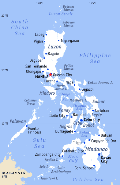 A general map of the Philippines, showing the location of major cities and islands.